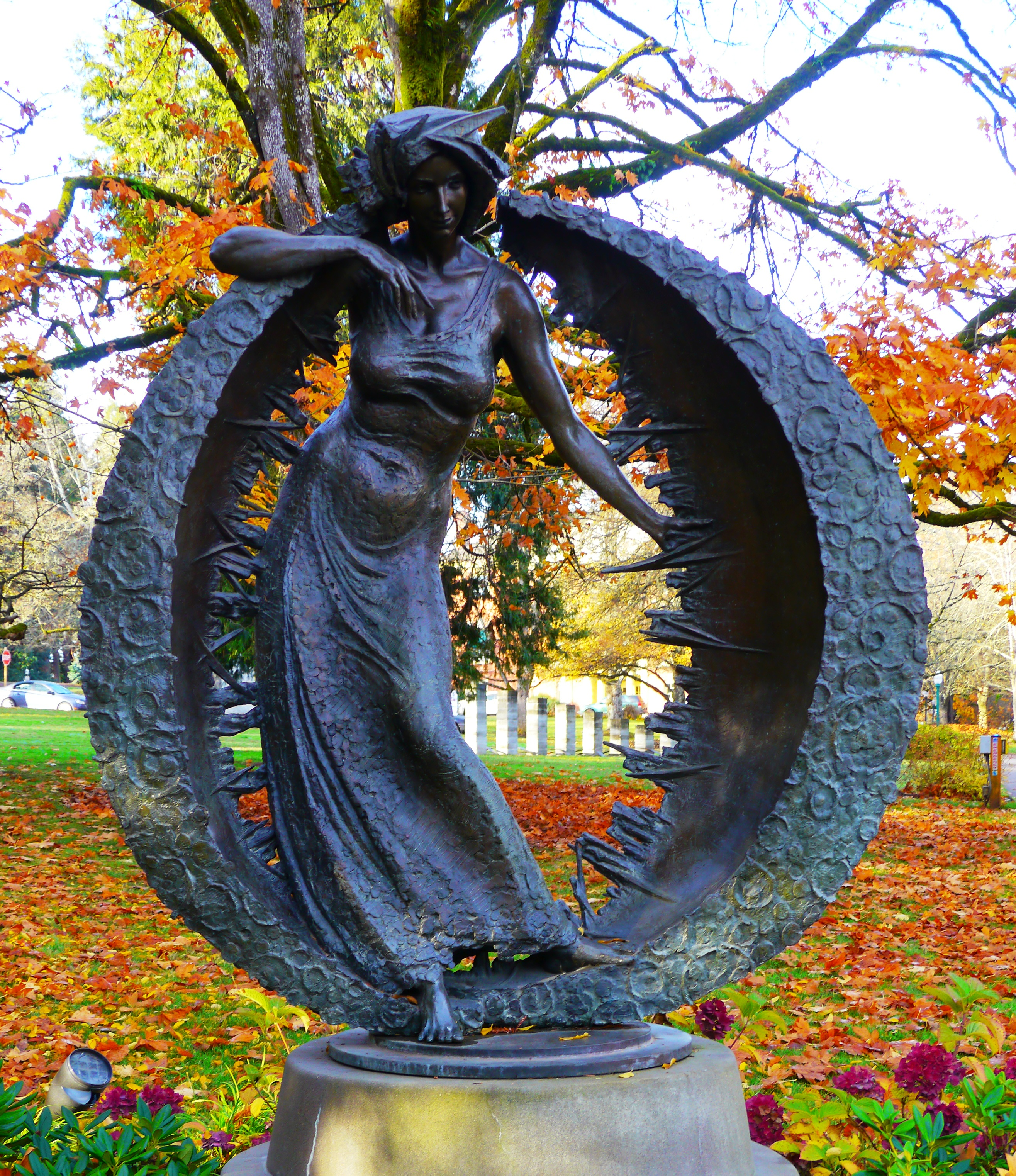 This photo was taken on the University of Oregon campus in Eugene, Oregon.